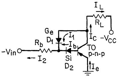 Baker clamp circuit, from Fig. 4 of Richard H. Baker's 1961 US Patent 3010031